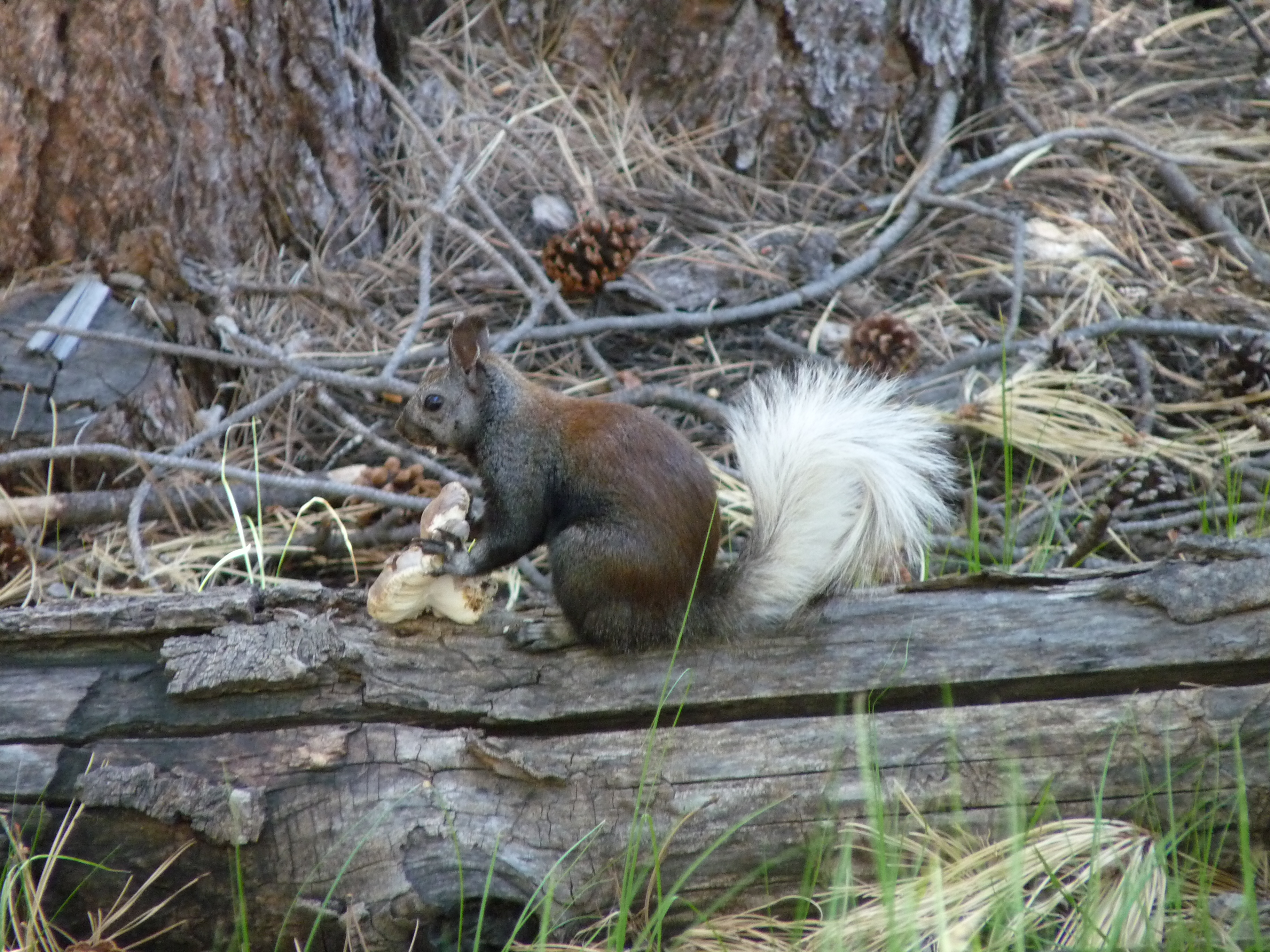 Photo of a Kaibab Squirrel taken near the Grand Canyon North Rim lodge